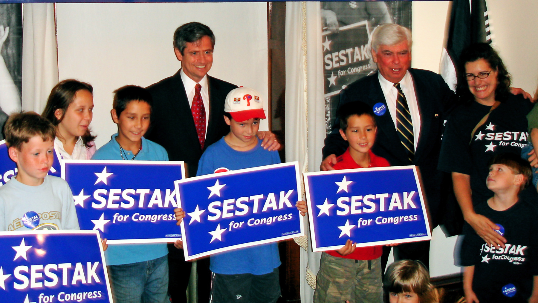 Kids pose with Joe Sestak and Chris Dodd at a children's issues talk.